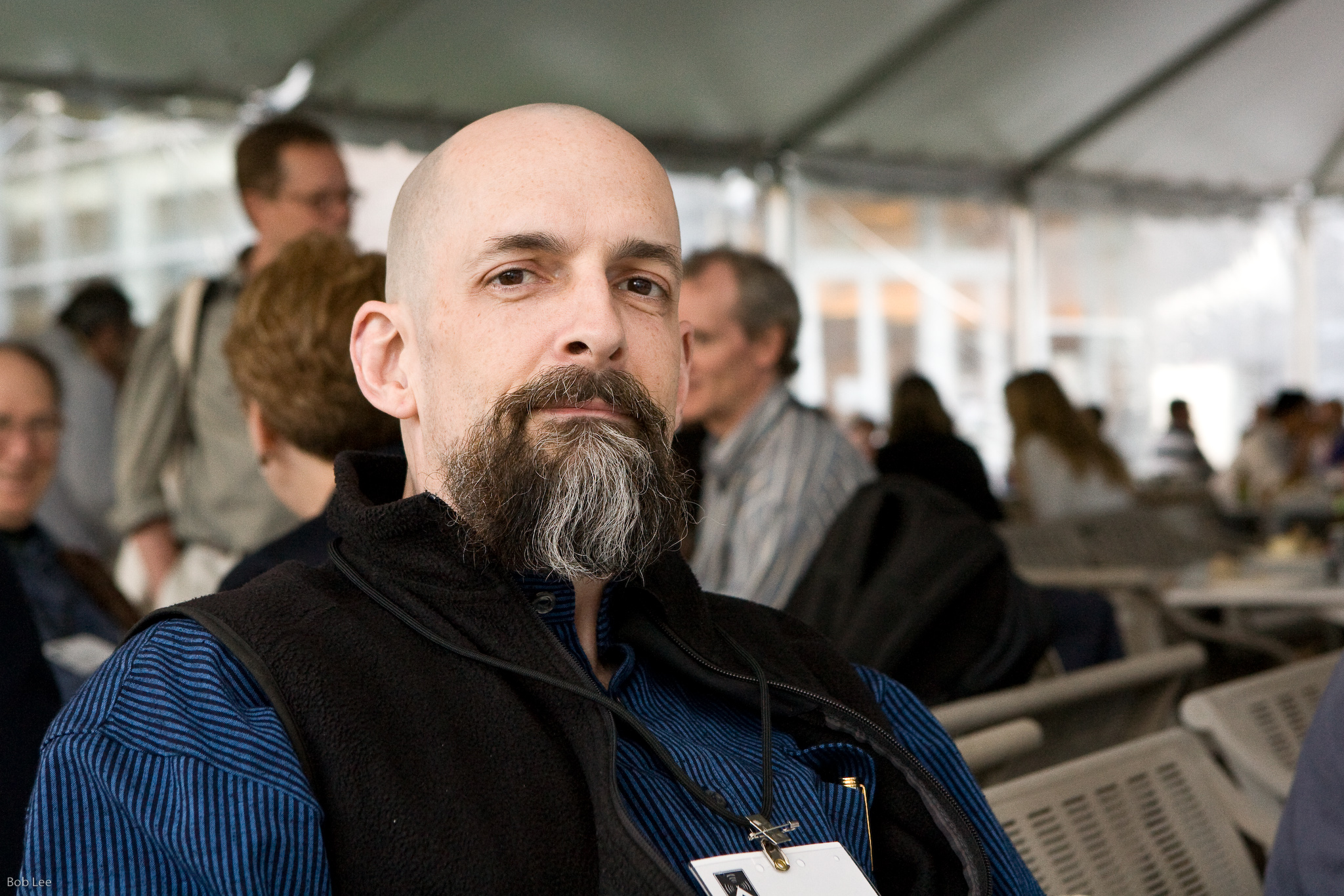 U.S. novelist Neal Stephenson at Science Foo Camp 2008.